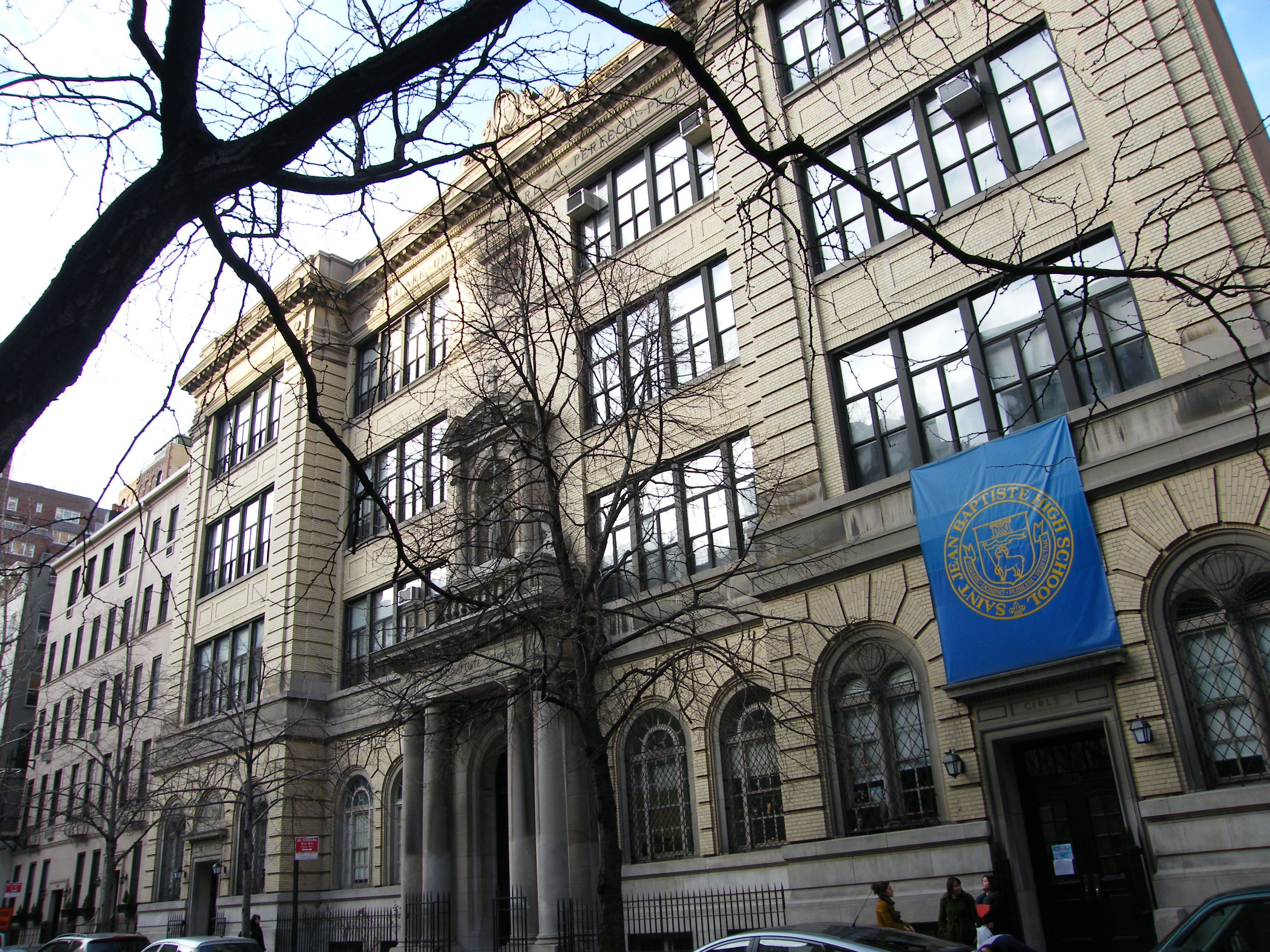 Jean Baptiste School for Girls in New York. Jean Baptiste School. St. Jean Baptiste High School is an all-girls, private, Roman Catholic high school located on the Upper East Side of Manhattan in New York City.